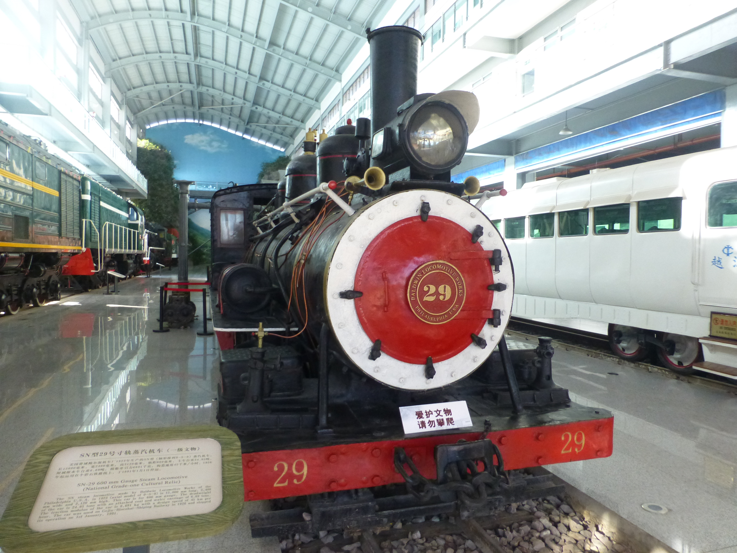 SN-29 steam locomotive, built by Baldwin Locomotive Works in Philadelphia in 1923. It operated on the 600 mm gauge Ge-Bi-Shi railway between 1926-1991. Presenty on display in the Yunnan Railway Museum (Kunming North Railway Station)